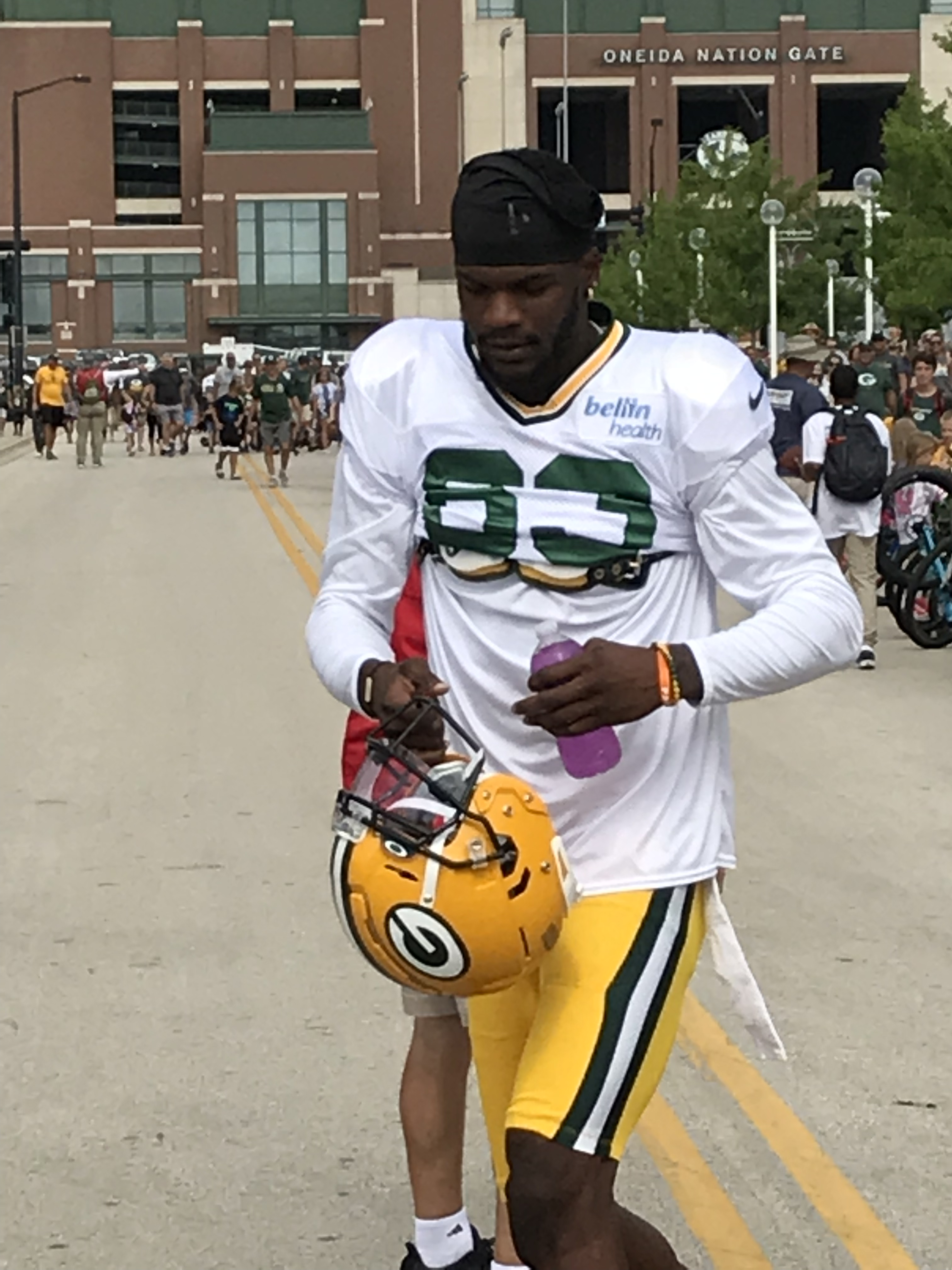 Green Bay Packers wide receiver Marquez Valdes-Scantling before a training camp practice on August 13, 2019.